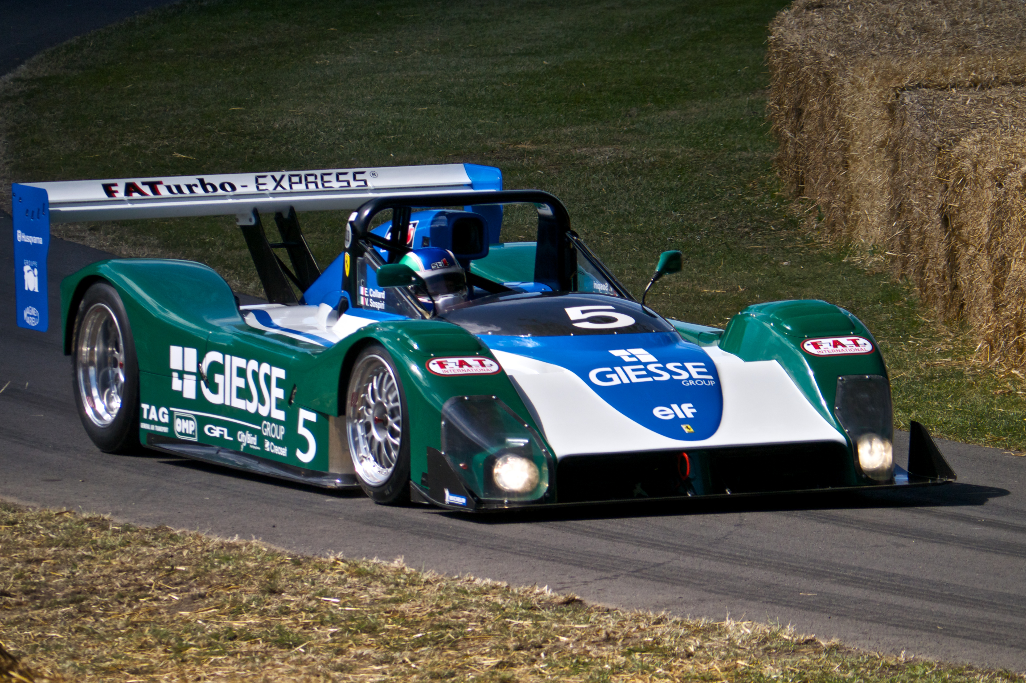 A 1999 Ferrari 333 SP at the 2014 Goodwood Festival of Speed.